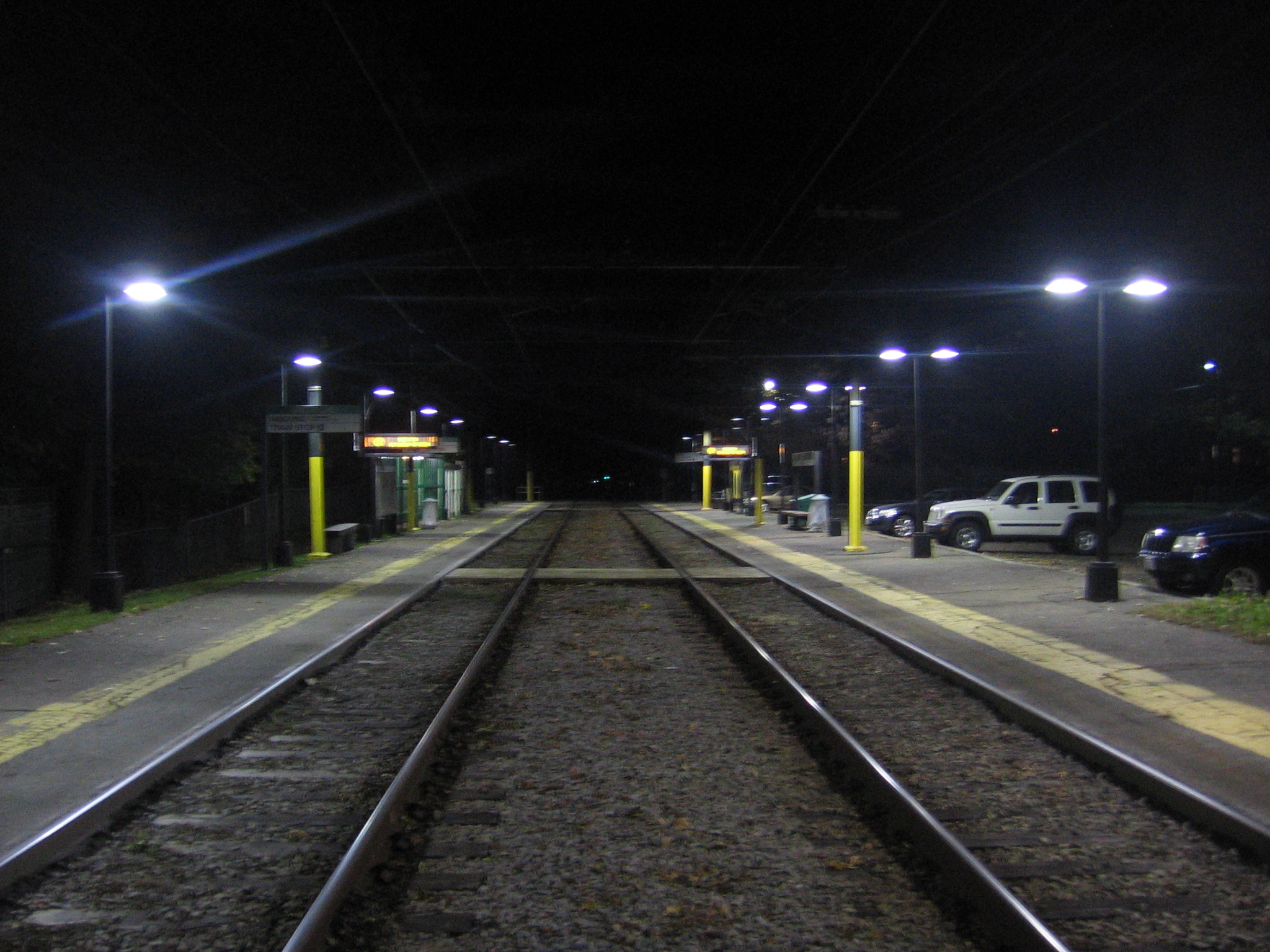 Eliot station at night, facing outbound